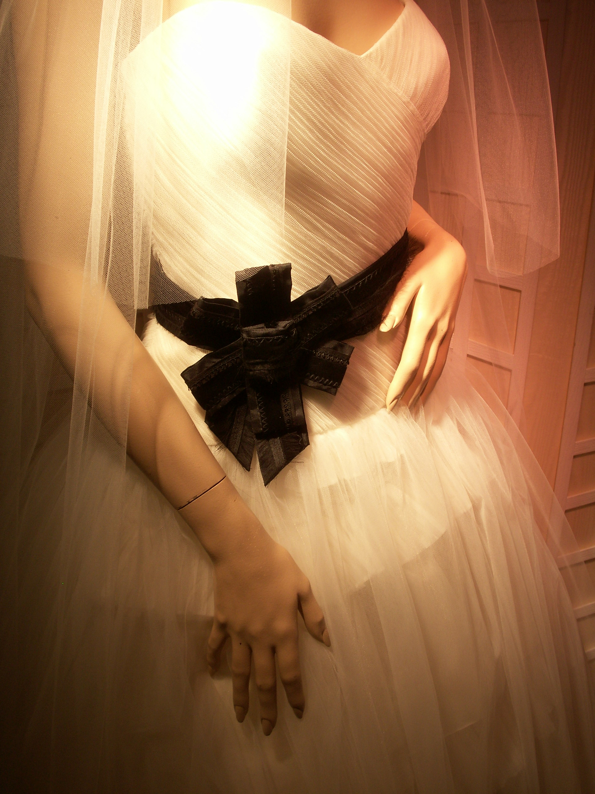 Detail of a Vera Wang wedding dress.